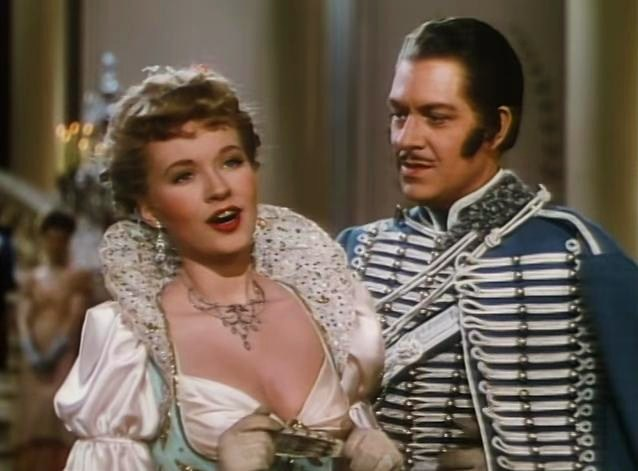 Susanna Foster & Nelson Eddy in Phantom of the Opera - trailer (cropped screenshot)